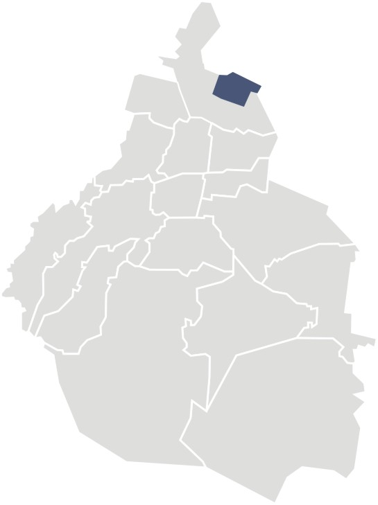 Map of the Sixth Federal Electoral District of the Federal District, México.